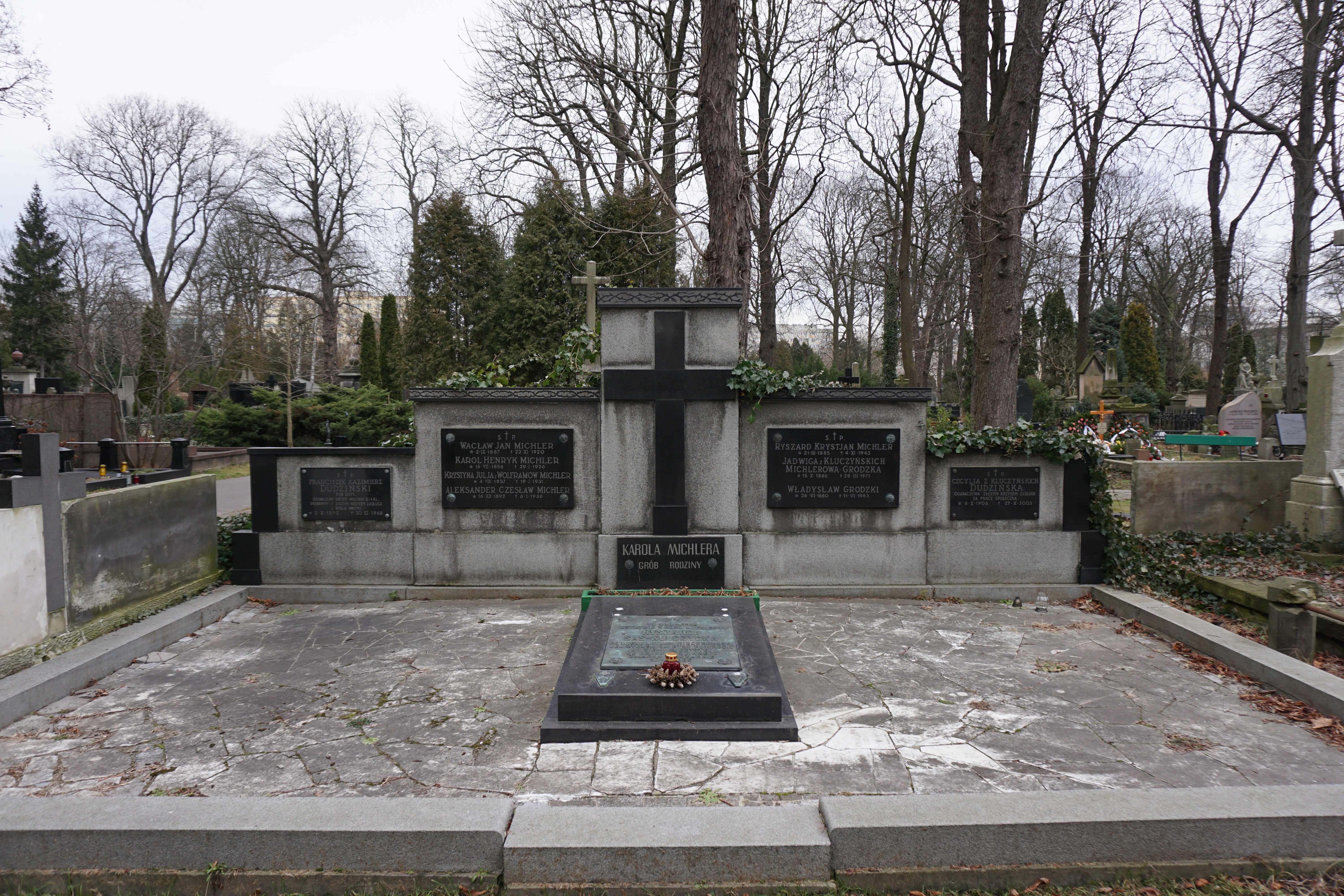 The grave of Franciszek Dudziński at the Evangelical-Augsburg cemetery in Warsaw (avenue 10, grave 3)